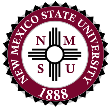 This is the new seal of the New Mexico State University, Updated from the original seal that is outdated (fixed 8-2013)